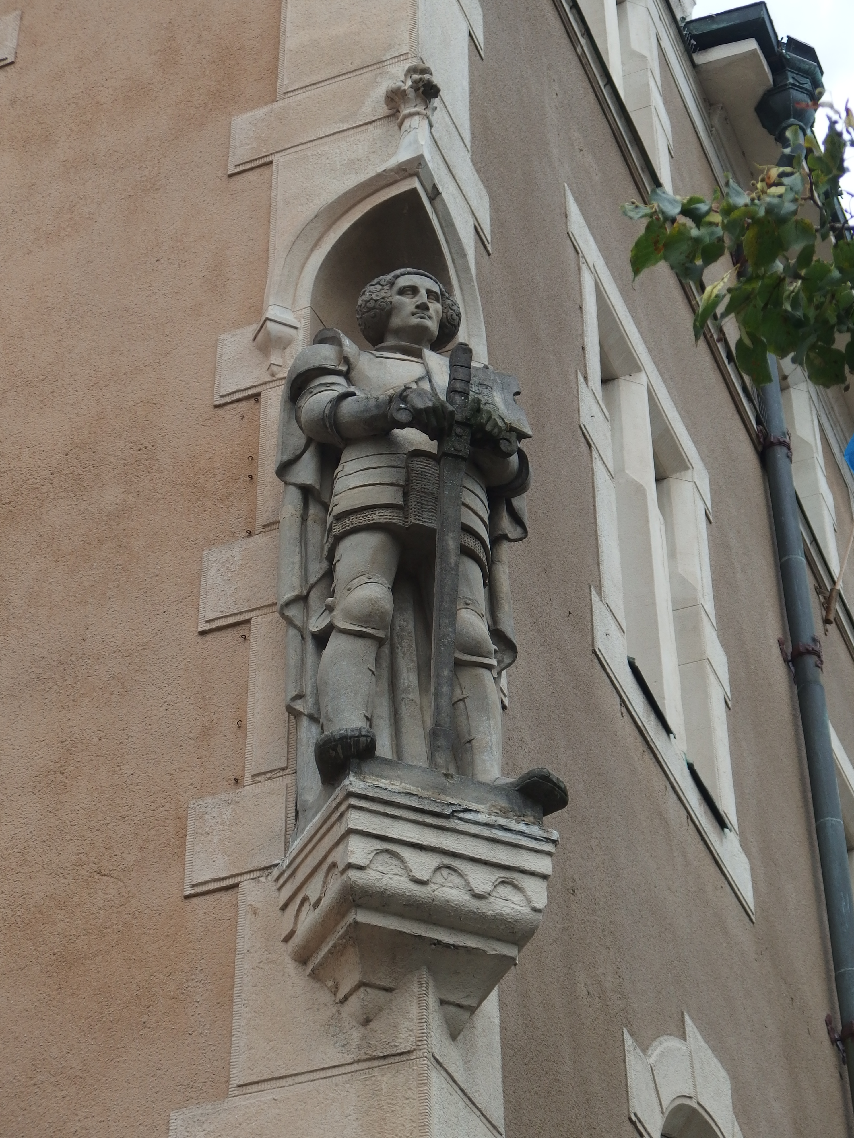 Šumperk, Czech Republic. Town hall.